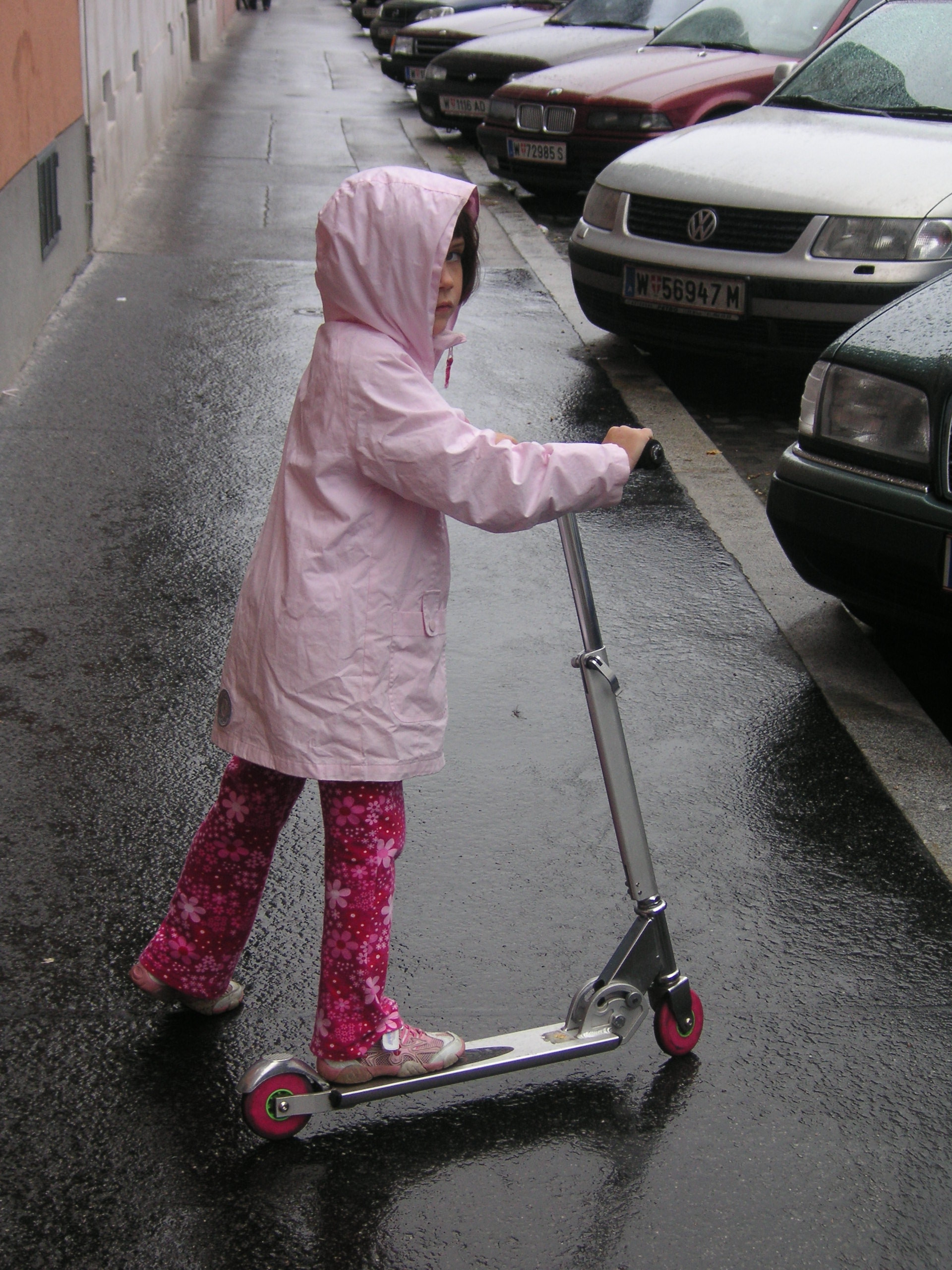 Photo by KF, October 2005: Girl with scooter on sidewalk in Vienna. 22:34, 2 October 2005 KF 1920x2560 (2513402 bytes)